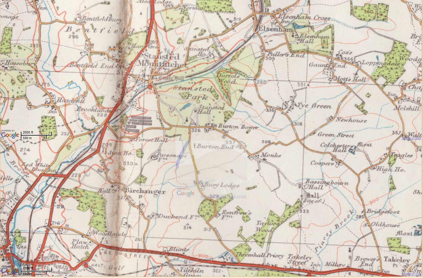 Where London Stansted Airport (England) is now, about 1935. Link to Google Earth map of the same area as it is now. The airport occupies roughly the area of Mott's Hall, Colchester Hall, Coopers, Bassingbourn Hall, Taylor's Wood. The red road along the bottom is the B1256.